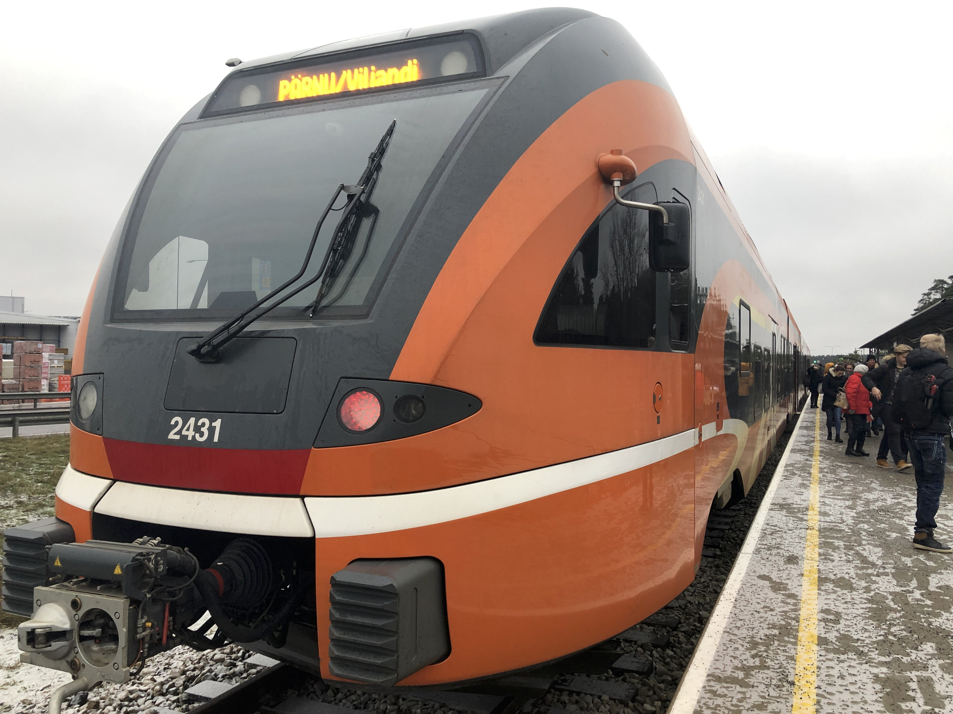 Last Elron train at Pärnu passenger railway station on Dec 8, 2018